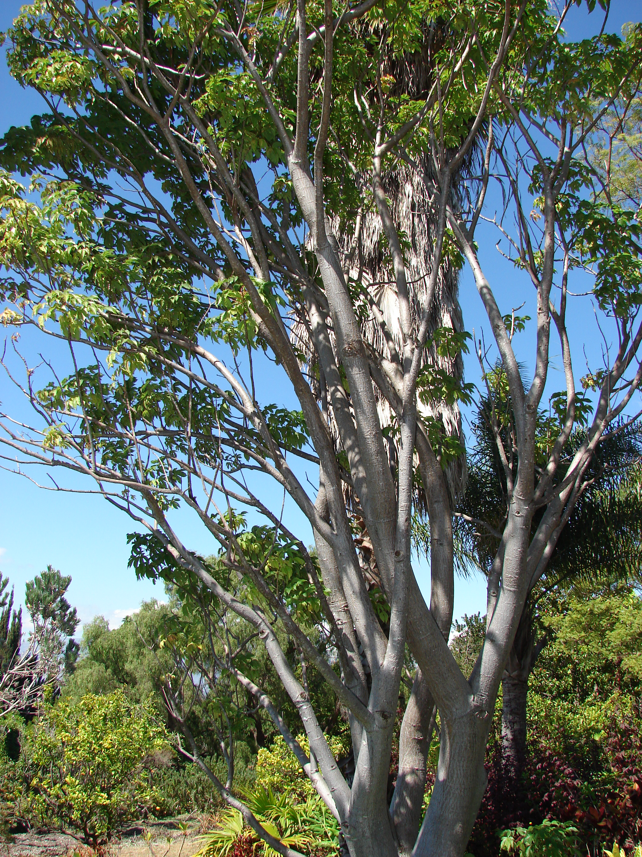 Cochlospermum vitifolium (habit). Location: Maui, Enchanting Floral Gardens of Kula